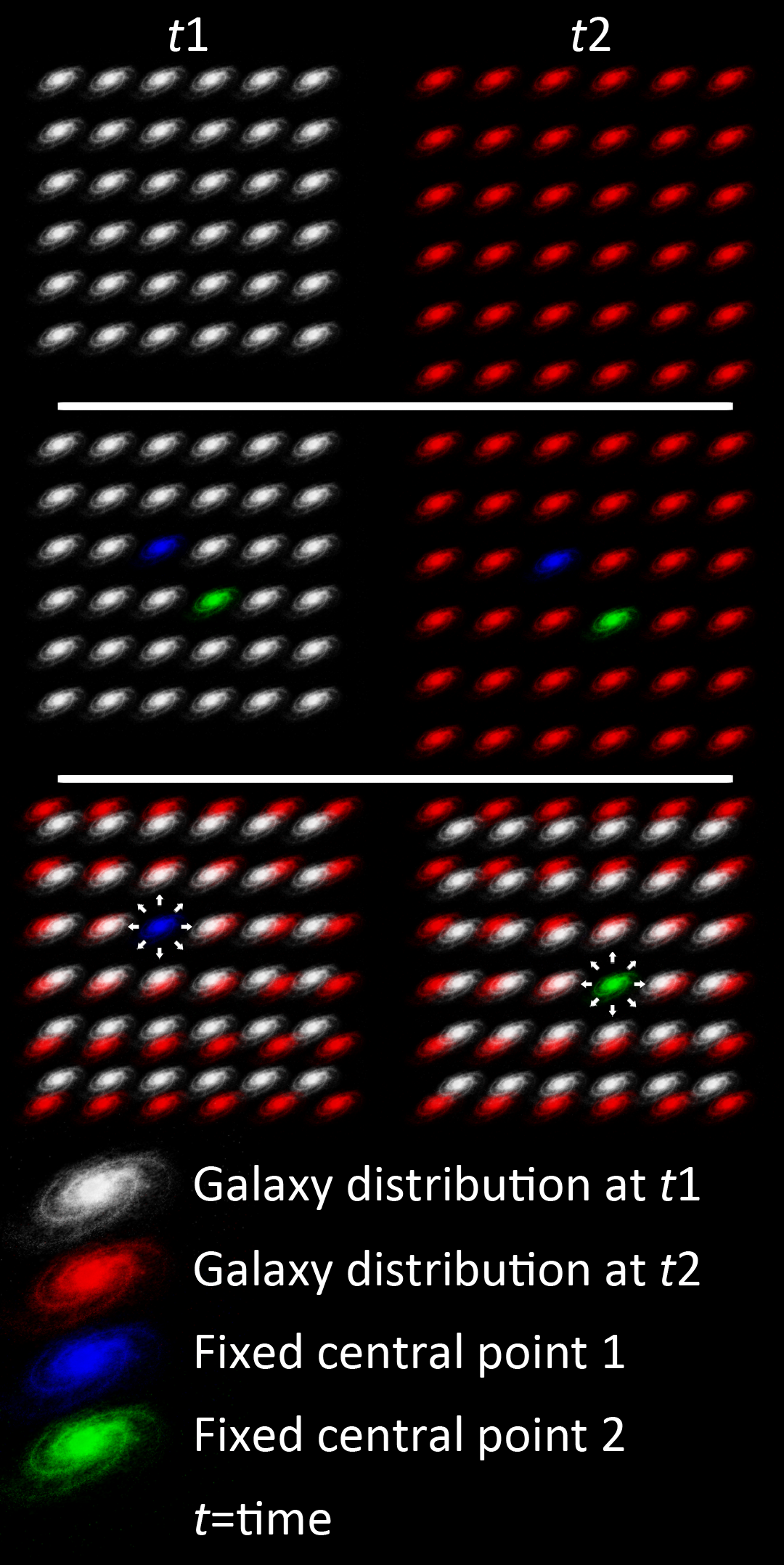 A simple diagram depicting the expansion of the universe and the appearance of galaxies moving away from a single galaxy. The phenomenon is relative to the observer. Object t1 is a smaller expansion than t2. Each section represents the movement of the red galaxies over the white galaxies for comparison.